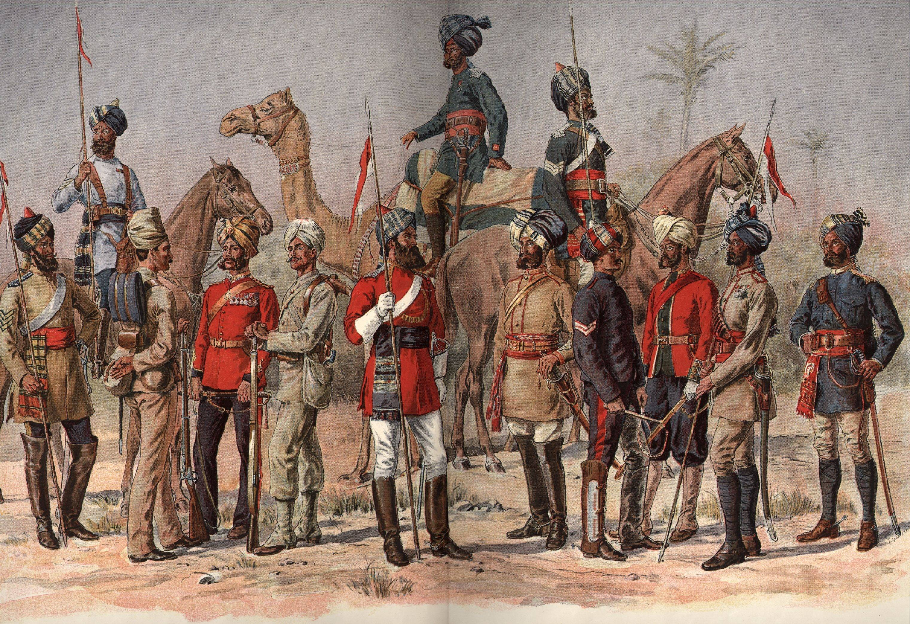 Native soldiers, known as Sepoys, provided much of the manpower that allowed the East India Company to rule India. This illustration depicts members of the Madras Army, which was composed of native Indian troops. A highly professional military force, it was used to subdue rebel uprisings in the early 1800s. The uniforms used by native troops working for the British were a colorful blend of traditional European military uniforms and Indian items, such as elaborate turbans.